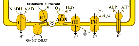 Alternative oxidase pathway in mitochondrion. Modified version of a portion of an image taken from figure 1 of Evolution of energy metabolism and its compartmentation in Kinetoplastida VÃ©ronique Hannaert, FrÃ©dÃ©ric Bringaud, Fred R Opperdoes and Paul AM Michels